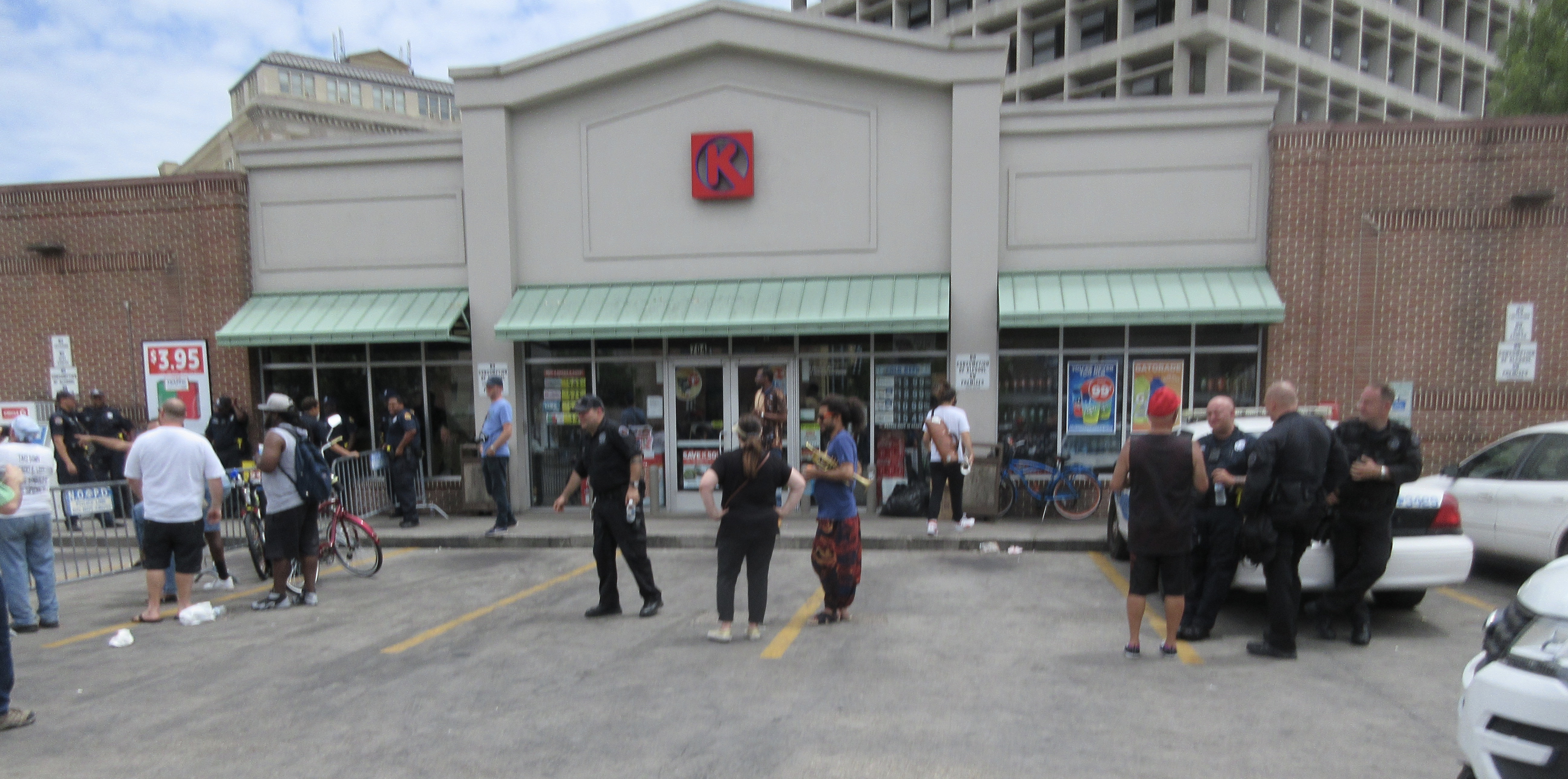 Robert E Lee statue at Lee Circle New Orleans removed. Block party festive atmosphere of people waiting on Howard Avenue.